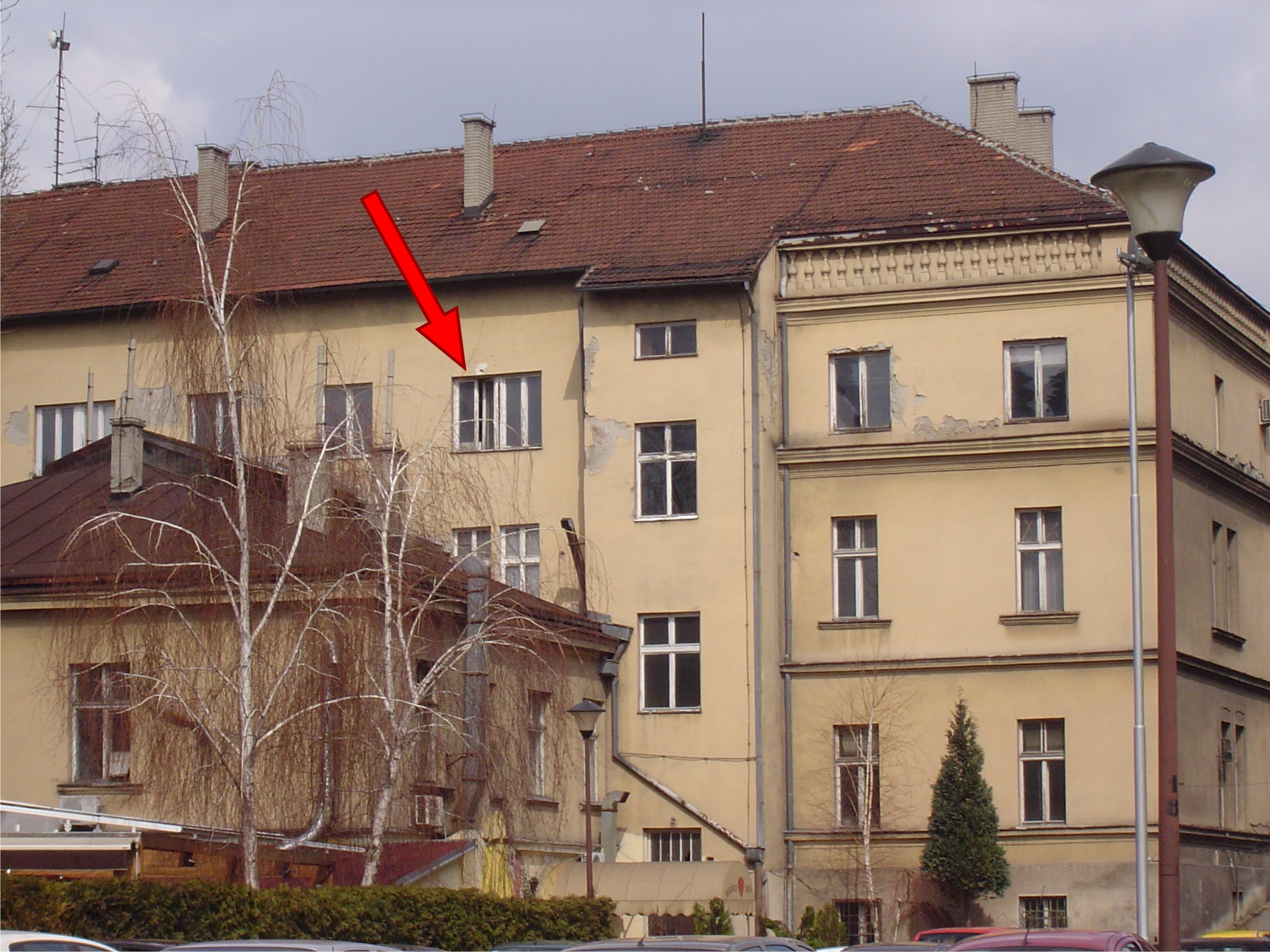 Back of Institute for Photogrammetry in Belgrade. The arrow marks the window of office #55, from where Zvezdan Jovanović assassinated Serbian Prime Minister Zoran Đinđić, on 12 March 2003.